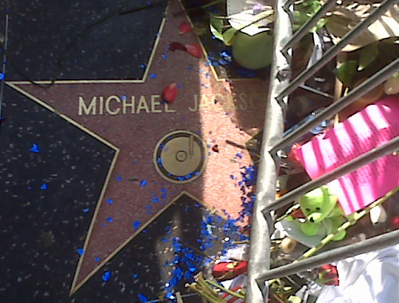 Cropped from File:Michael Jackson Star on Hollywood Blvd.jpg